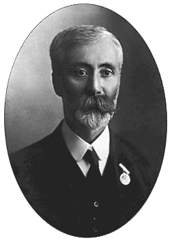 Photo portrait of Joseph Henry Maiden (1859-1925)